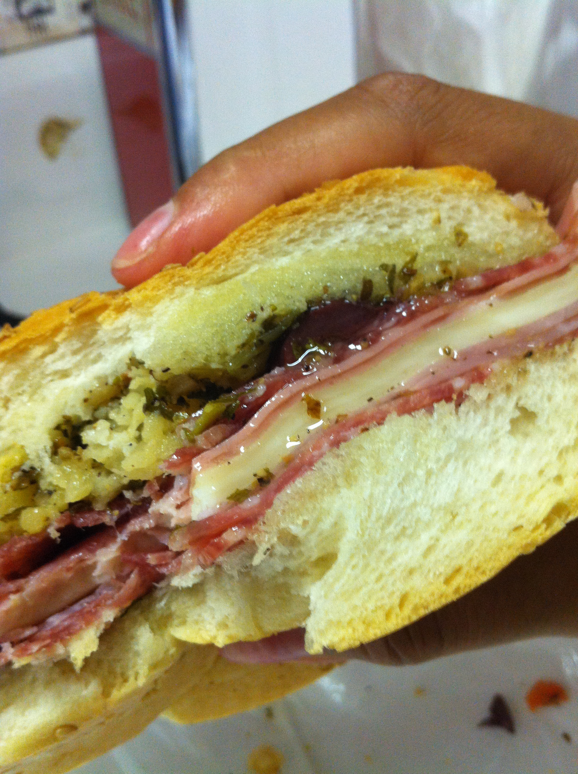 Muffaletta!!! At Central Grocery, New Orleans.